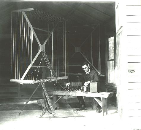 W.G. Wade received signals from a coil (or loop) antenna - mainly used for direction finding - at a Kennsington Maryland field station in 1919 -from NIST Photographic Collection, Radio Direction Finder